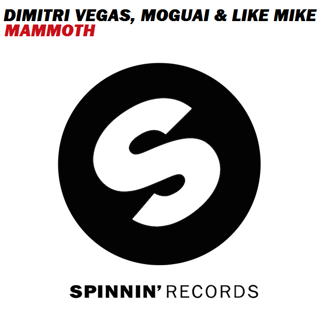 Similar to the official single cover of Mammoth by Dimitri Vegas & Like Mike